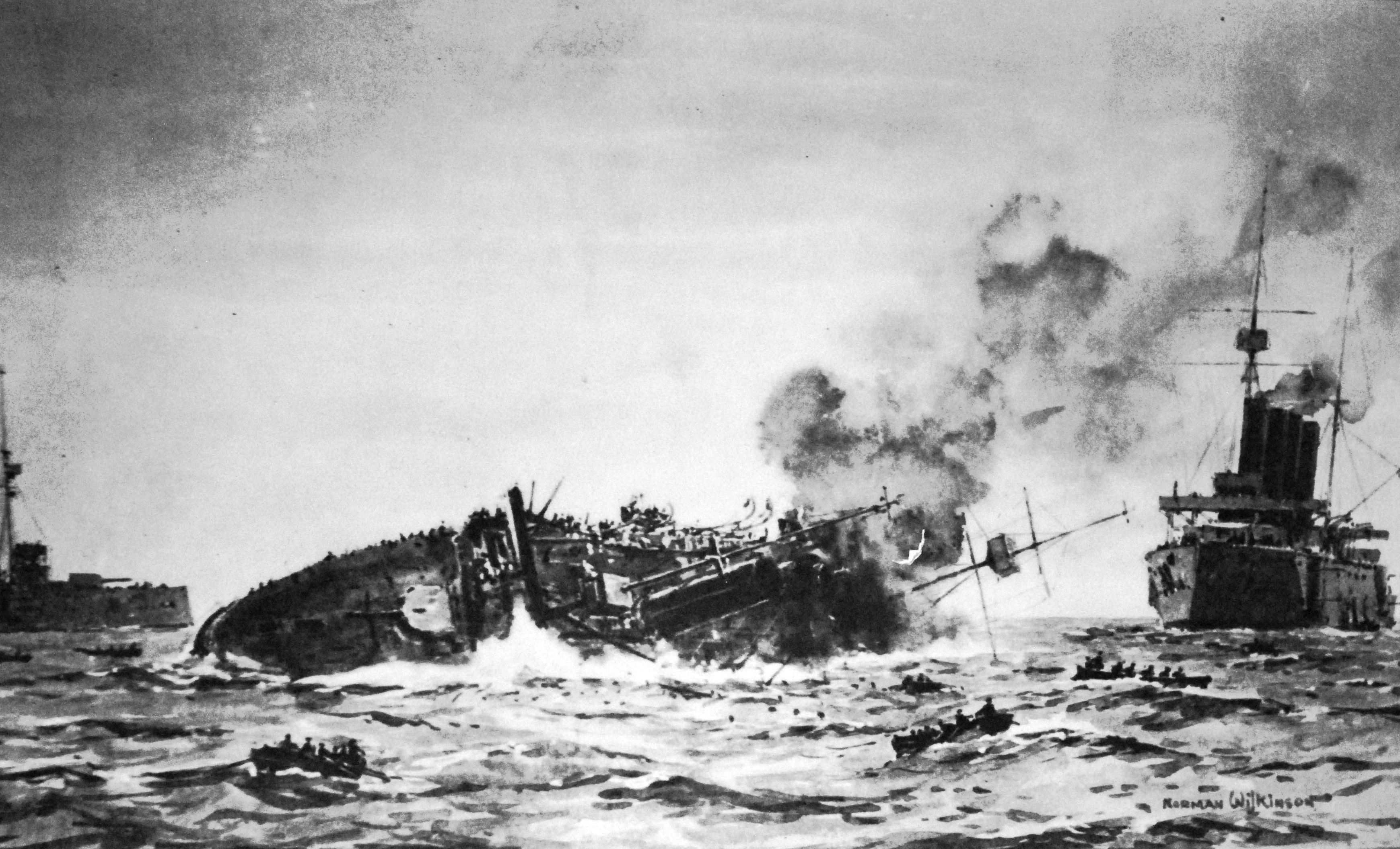 Lot 9706-3: Loss of HMS Aboukir, Royal Navy, Cressy-class armored cruiser which was sunk by German submarine U-9 on September 22, 1914. Artwork by Norman Wilkinson. (7/17/2015). National Museum of the U.S. Navy